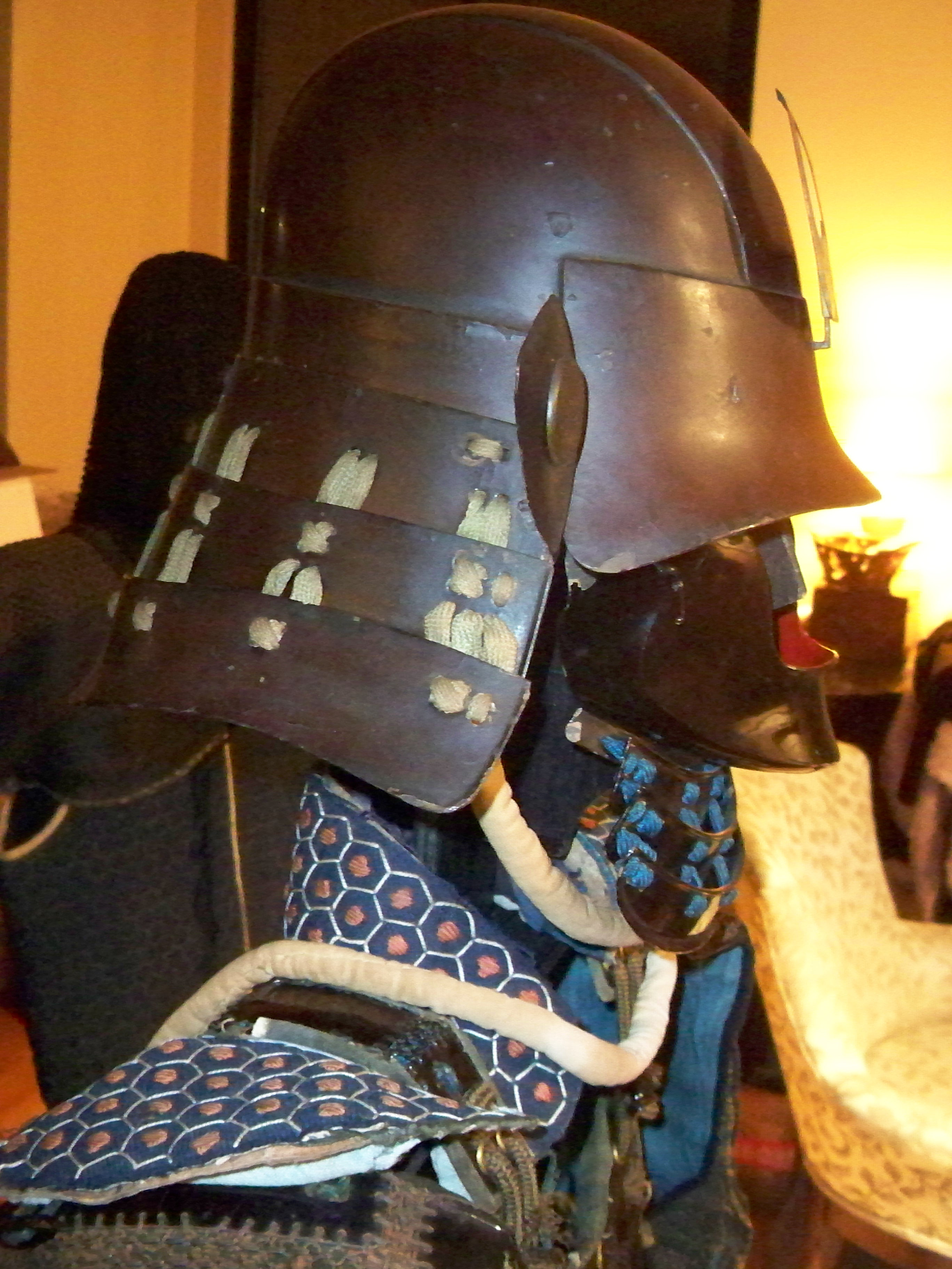 Japanese (samurai) Edo period iron helmet "kabuto" in the "zunari style.